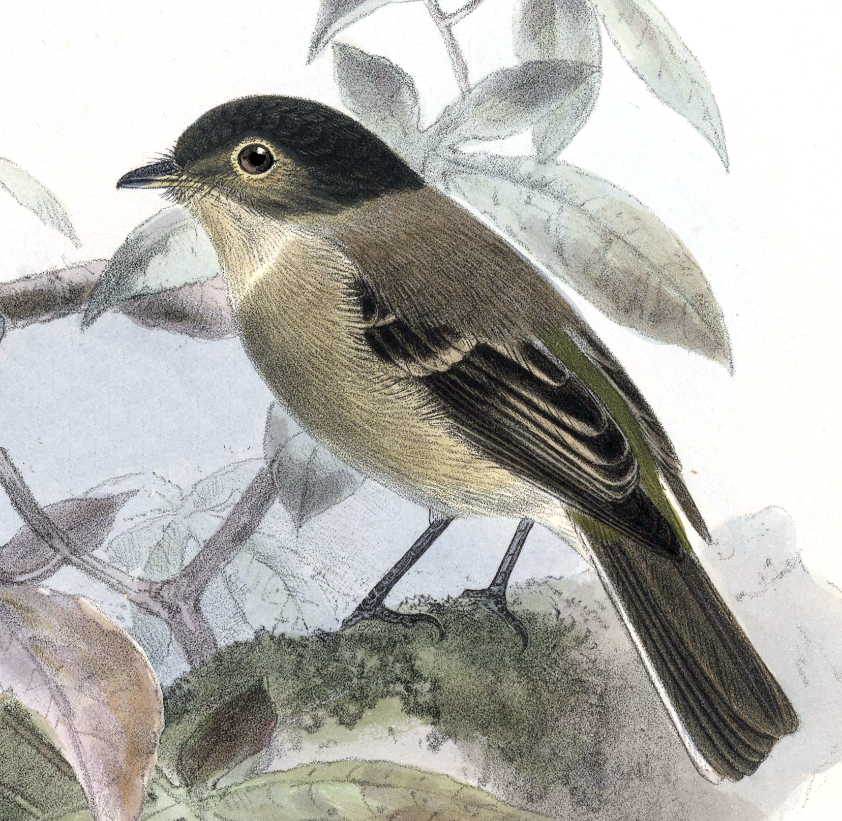 « Empidonax atriceps » = Empidonax atriceps (Black-capped Flycatcher)